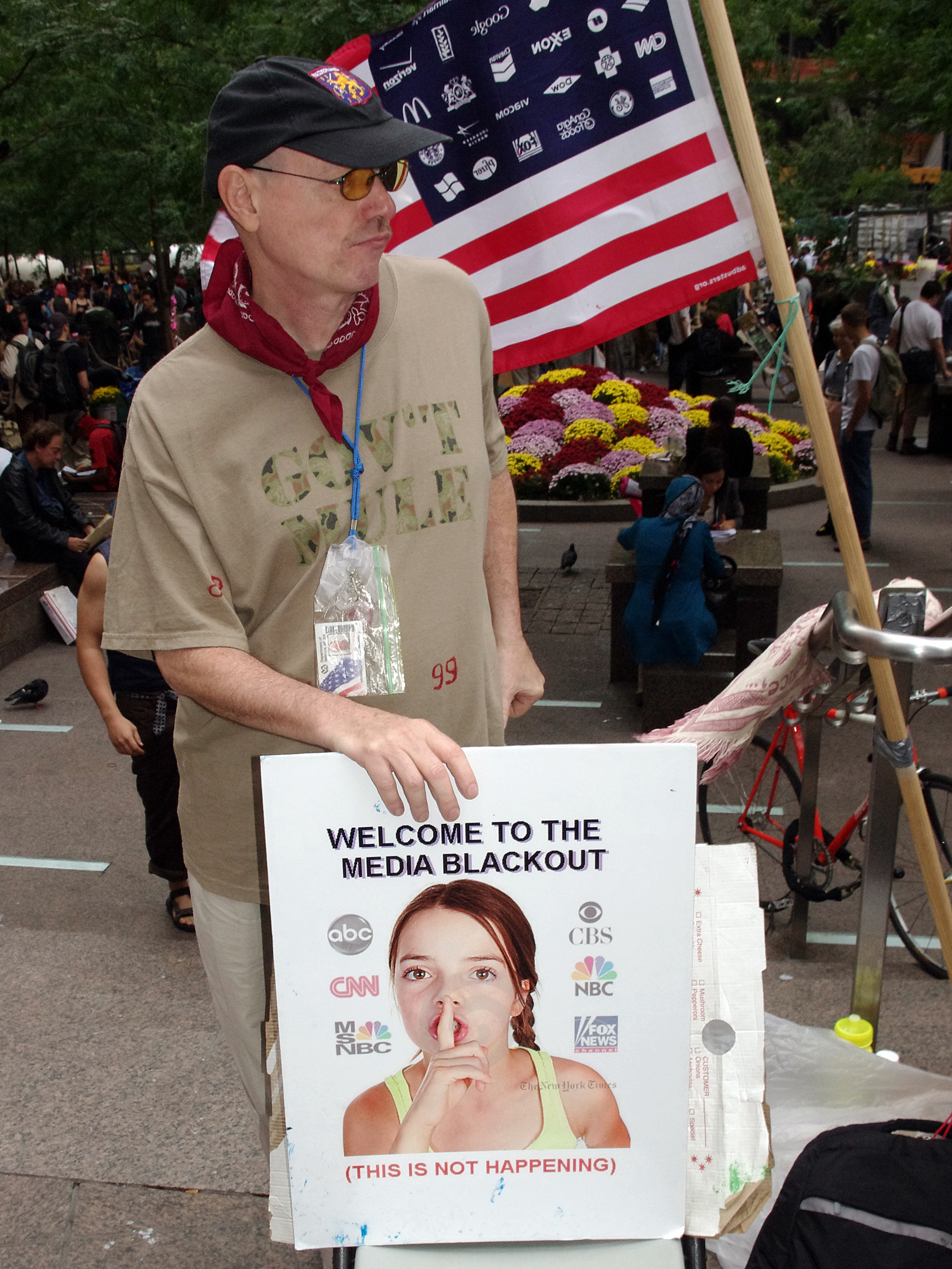 Wednesday, Day 12, September 28 and New York's financial district Wall Street remains barricaded to the public and tourists alike. Occupy Wall Street has effectively shut down the main strip of the financial district. Photos from Zuccotti Park, September 28 2011.